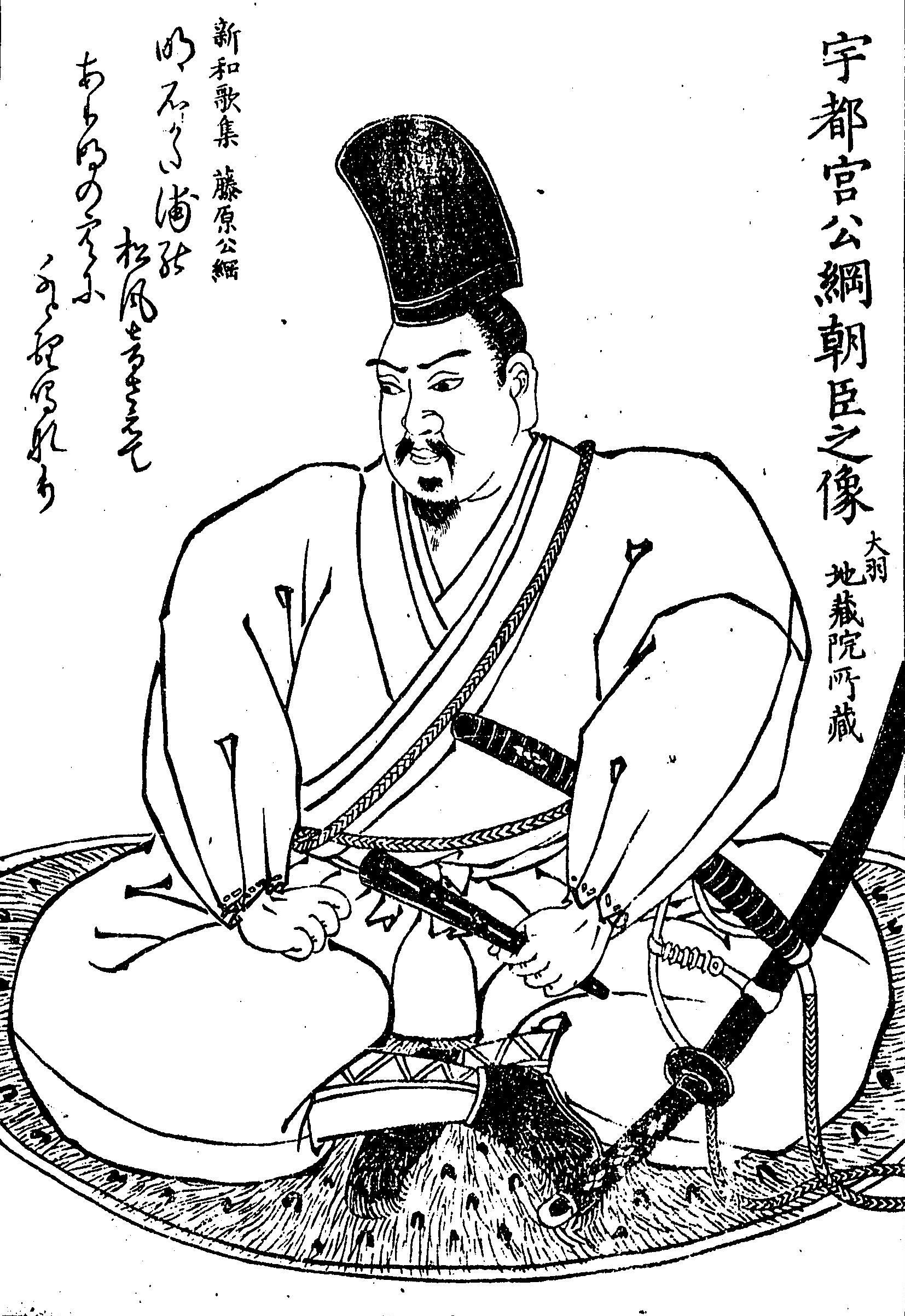 Portrait of Utsunomiya Kintsuna